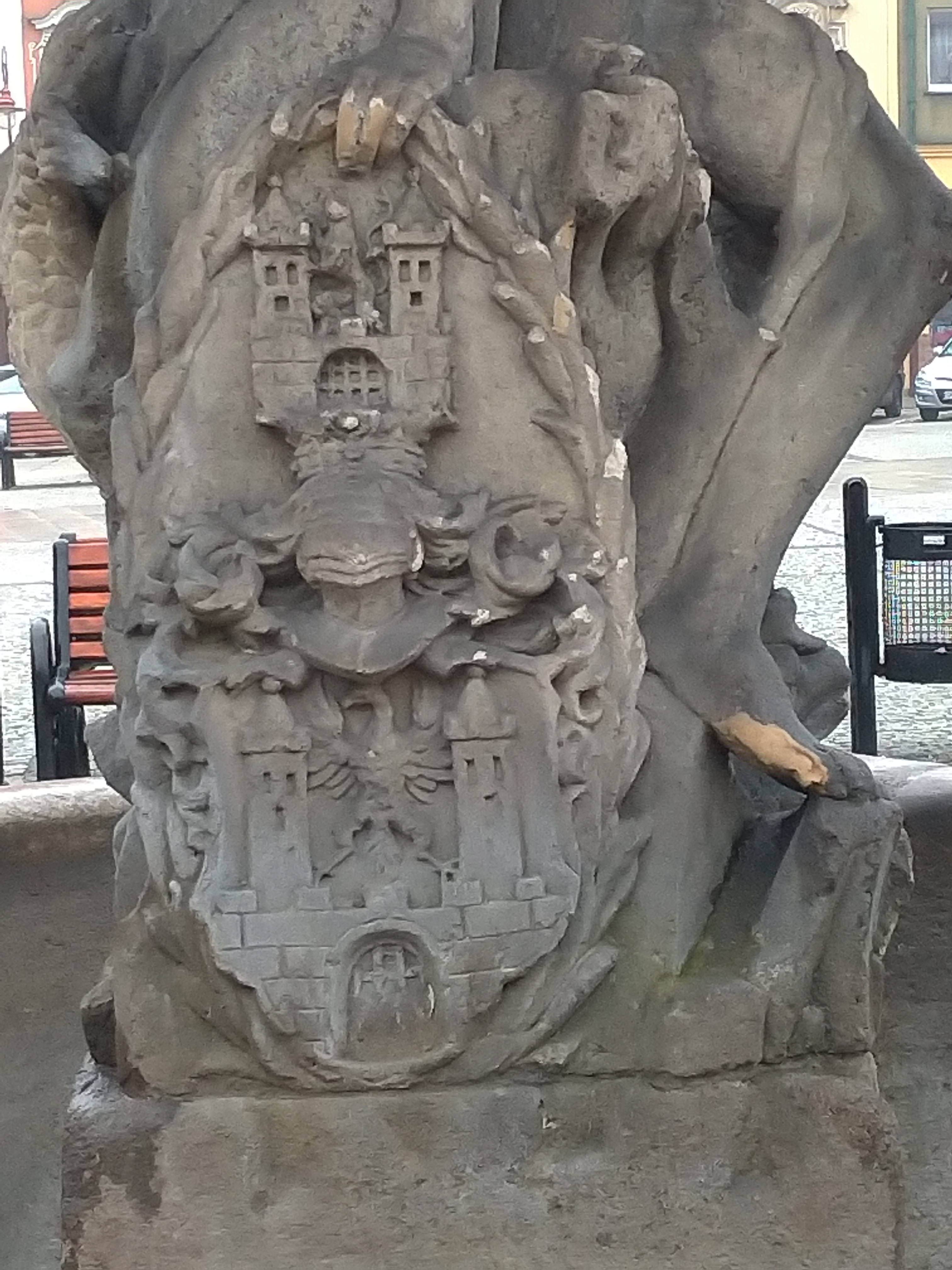 Market Square Fountain in Prudnik.